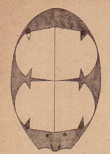 Graphics for Furriers